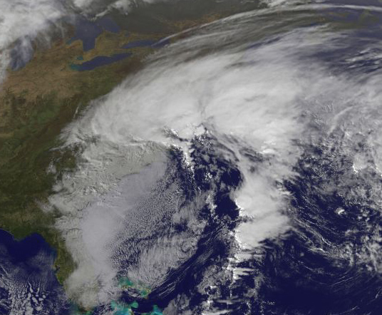 The GOES-12 satellite captured this view of the coastal low pressure area on November 12 at 3:01 p.m. ET, drenching the Mid-Atlantic.